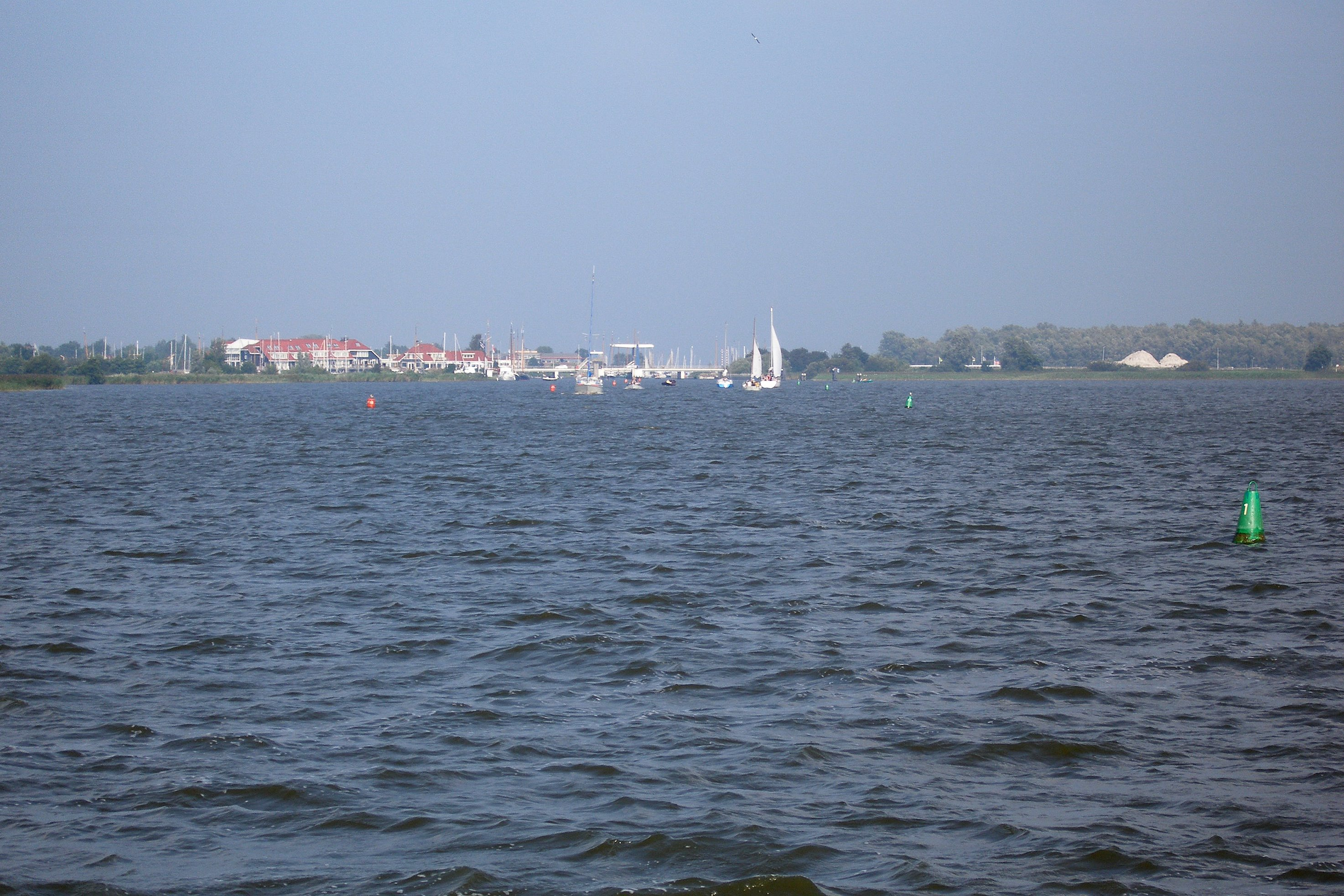 De Morra, a lake in Friesland, with in the background the Galamadammen